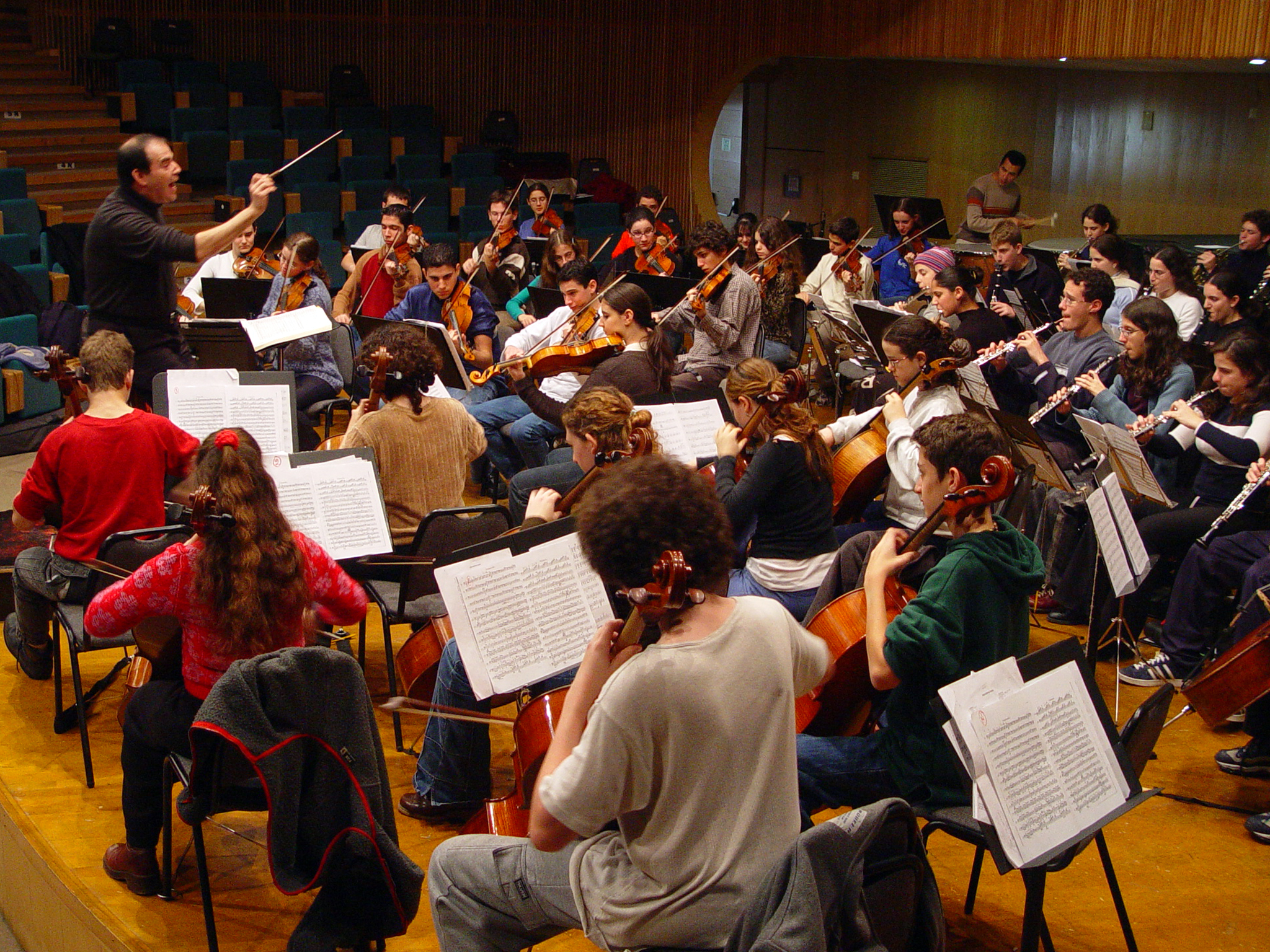 The Thelma Yellin High School of the Arts (Israel) - 90-piece symphony orchestra with Maestro MENAHEM NEBENHAUS